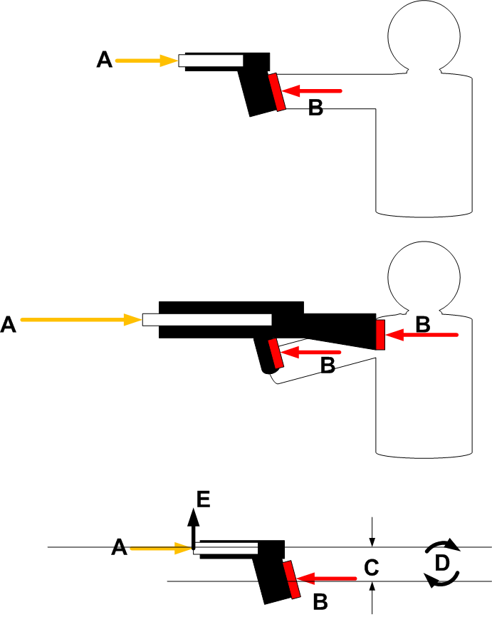 This graphic illustrates the forces and geometry / mechanics / dynamics involved in firearms muzzle rise. Projectile and propellant gases act on barrel along barrel centerline A. Forces are resisted by shooter contact with gun at grips and stock B. Height difference between barrel centerline and average point of contact is height C. Forces A and B operating over moment arm / height C create torque or moment D, which rotates the firearm's muzzle up as illustrated at E.